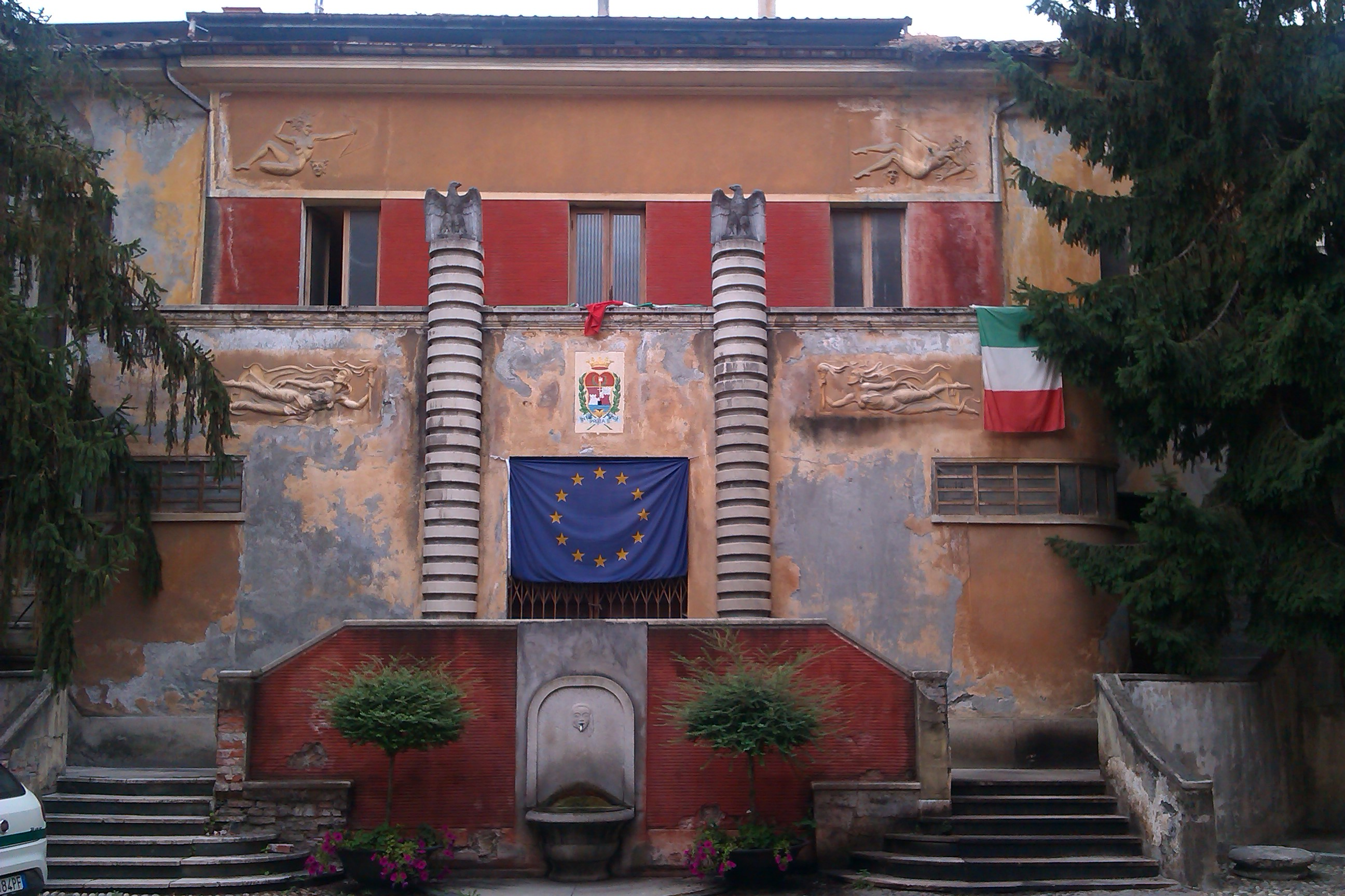 Otto Maraini, City theatre of Susa (Piedmont, Italy), 1937. Facade.